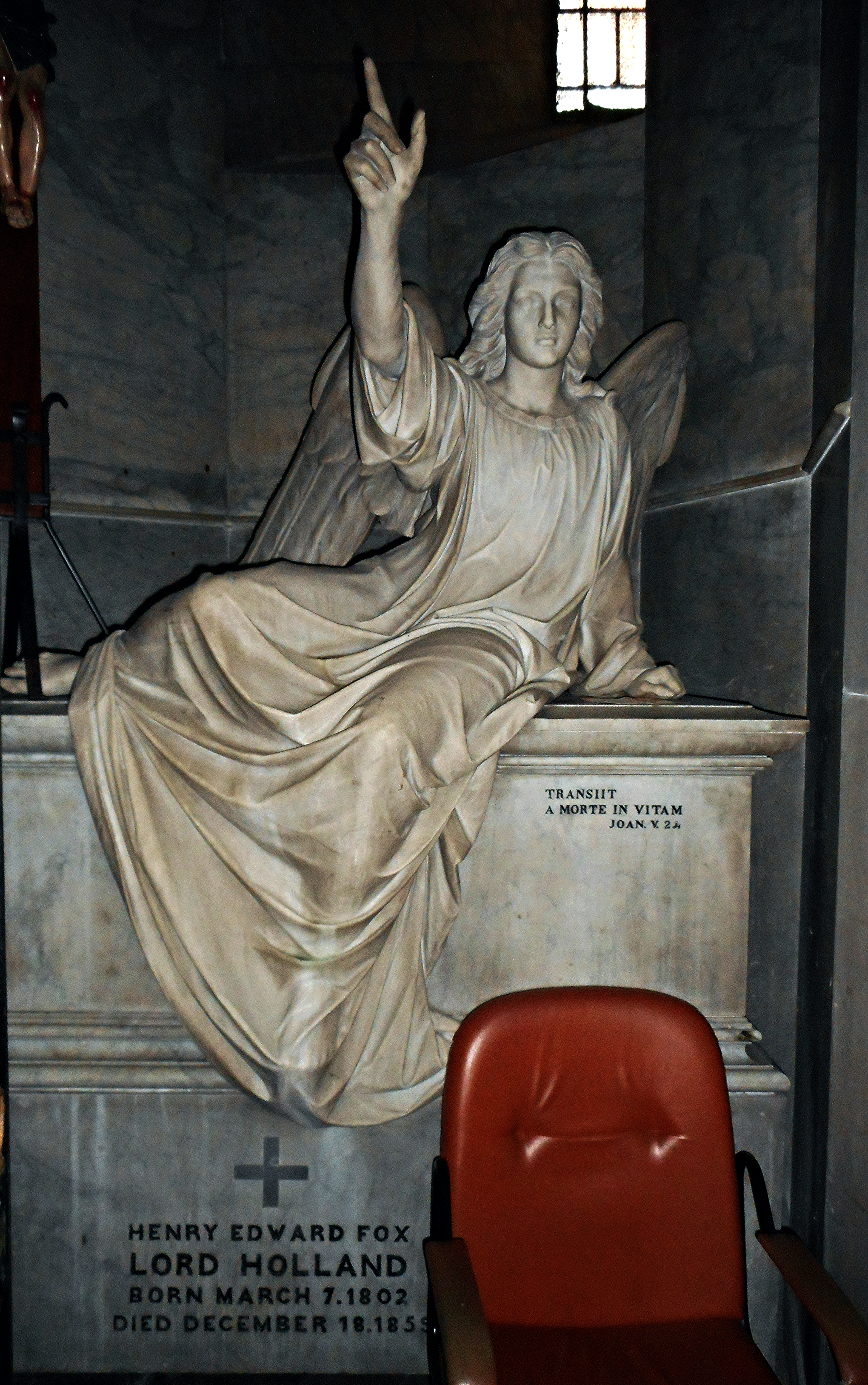 Monument to Henry Edward Fox, 4th Baron Holland (1802-1859) of Holland House, Kensington, London. San Giuseppe a Chiaia Church, Naples